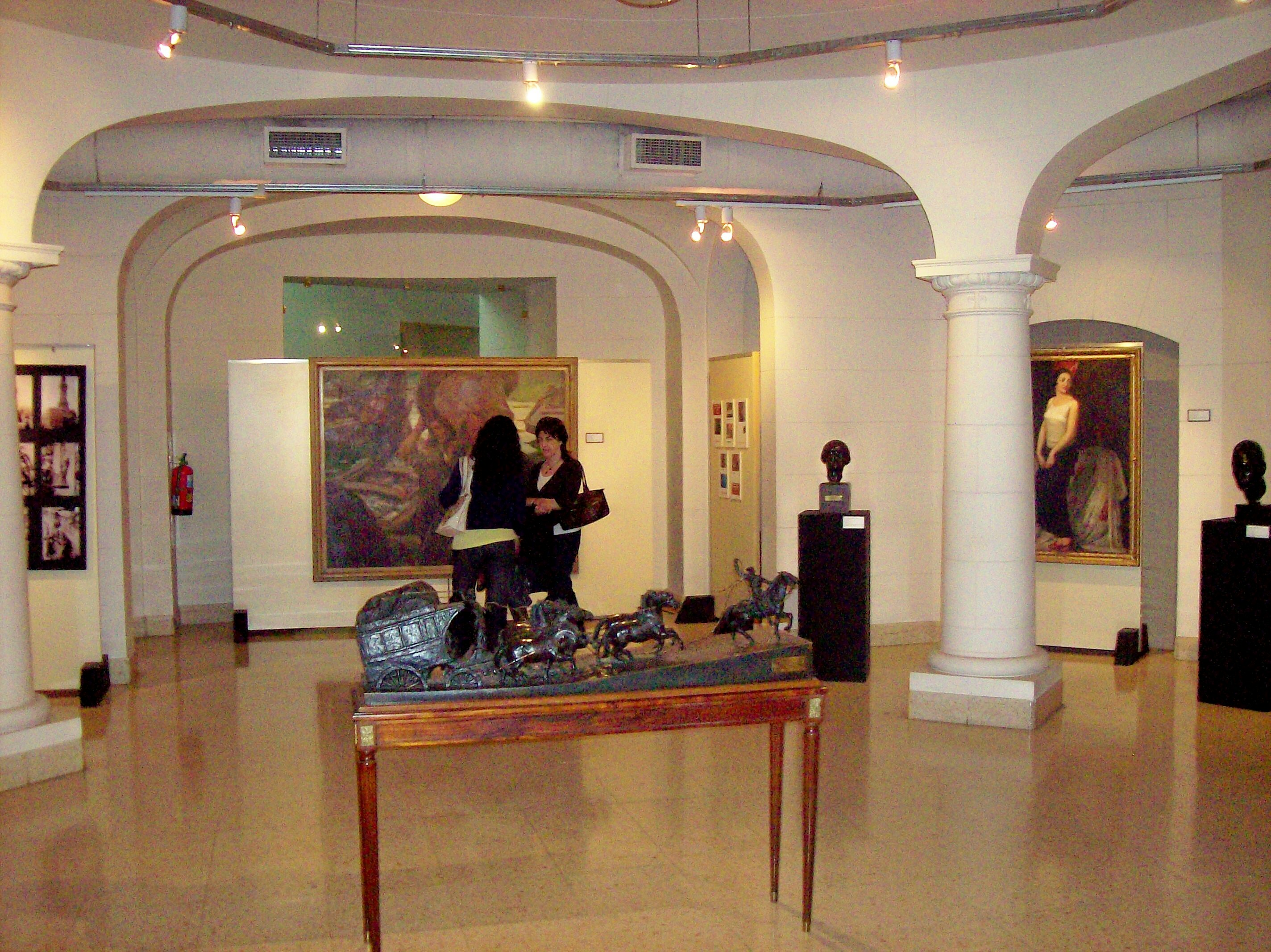 Museum in the Legislature Palace, Buenos Aires, Barrio de Monserrat.